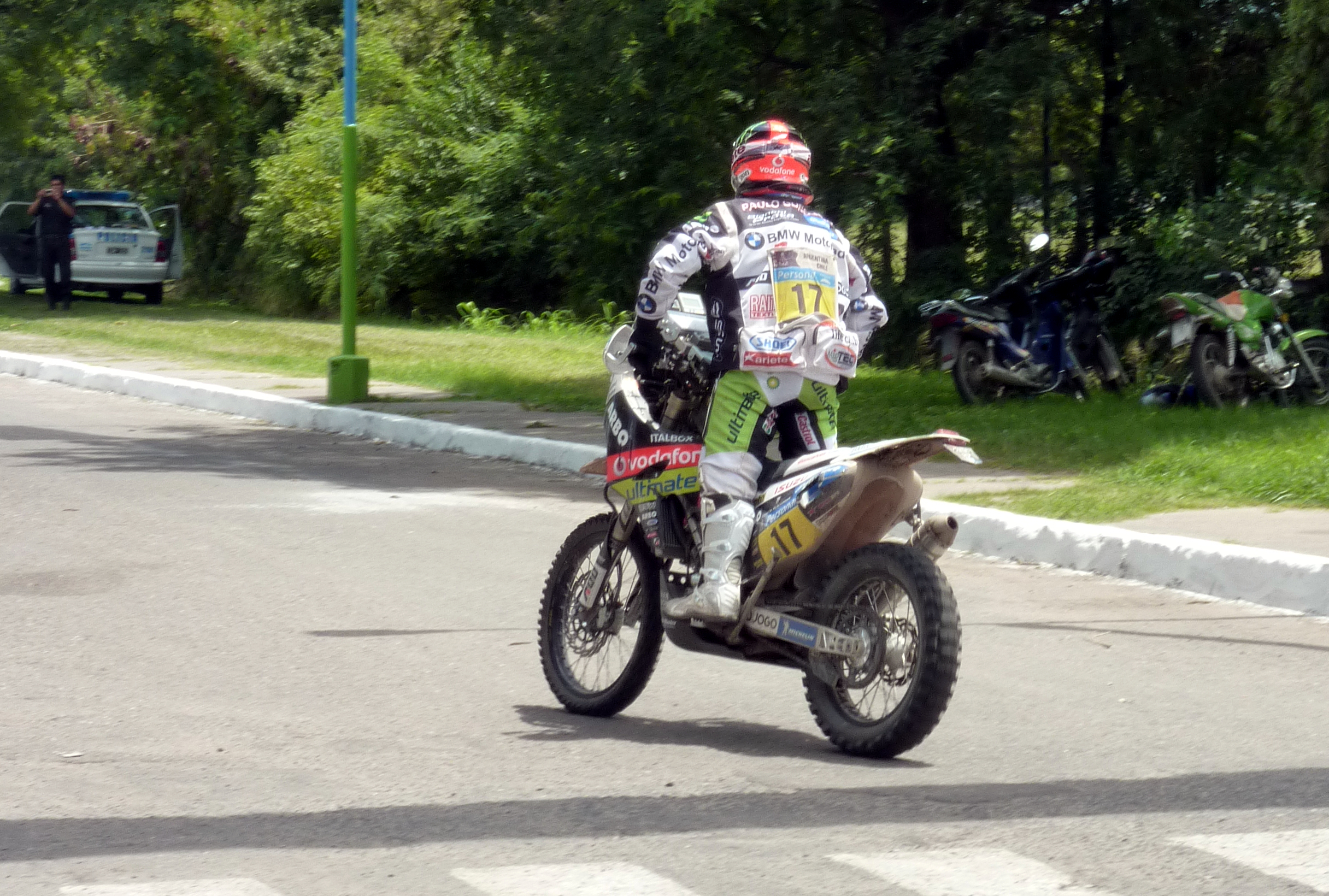 A BMW G 450 X during the 2011 Dakar Rally. The photo was taken after the 2nd stage in San Miguel de Tucumán. The driver of the bike is Paulo Gonçalves.